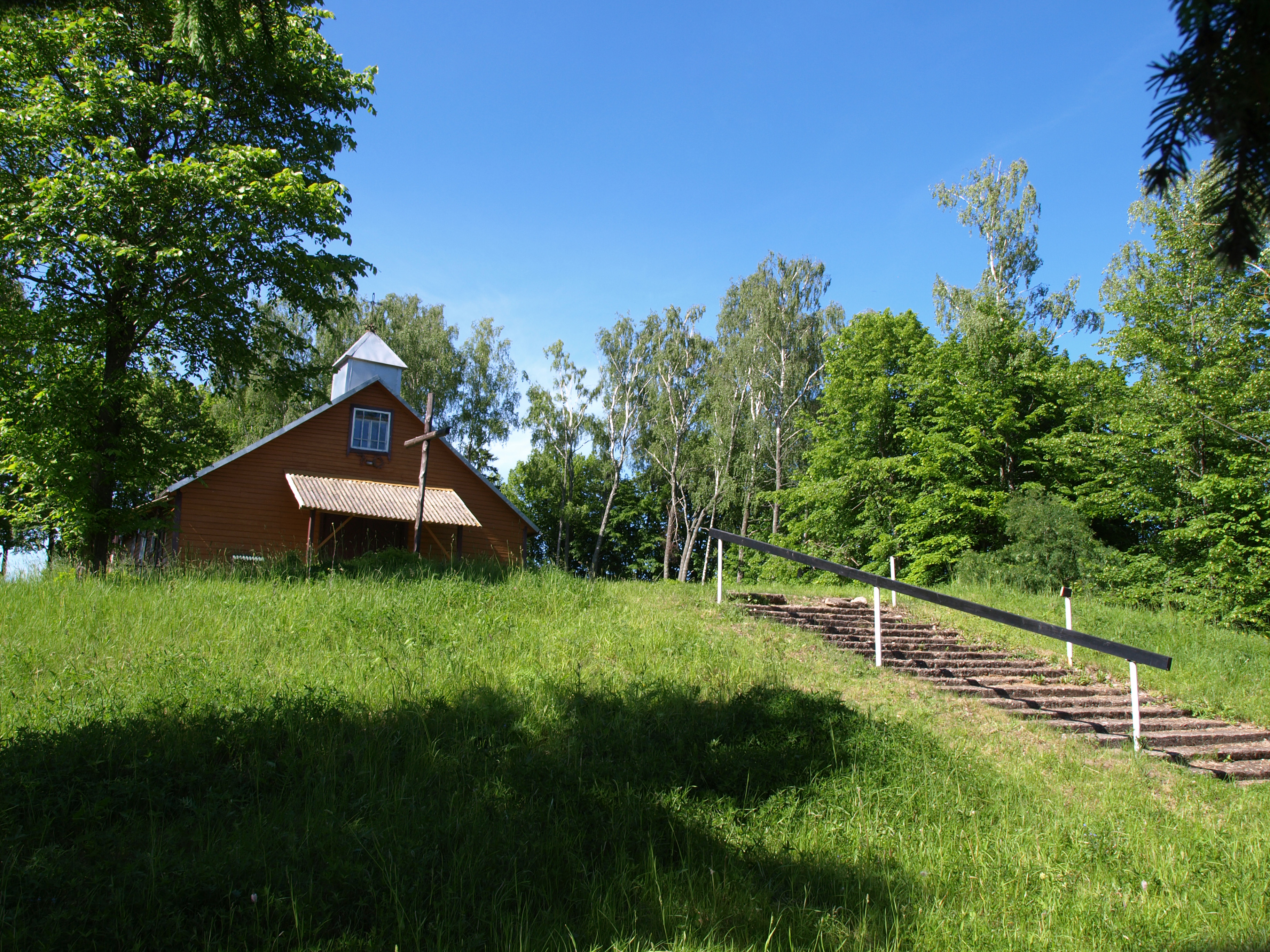 Pūškos church, Ignalina district, Lithuania